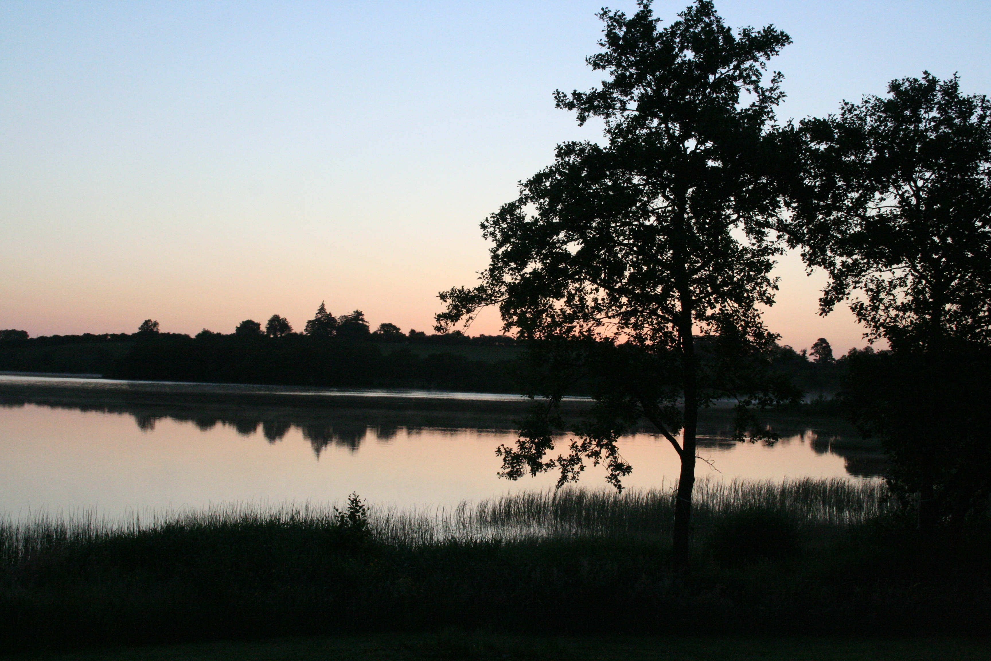 Lough Gowna at dawn